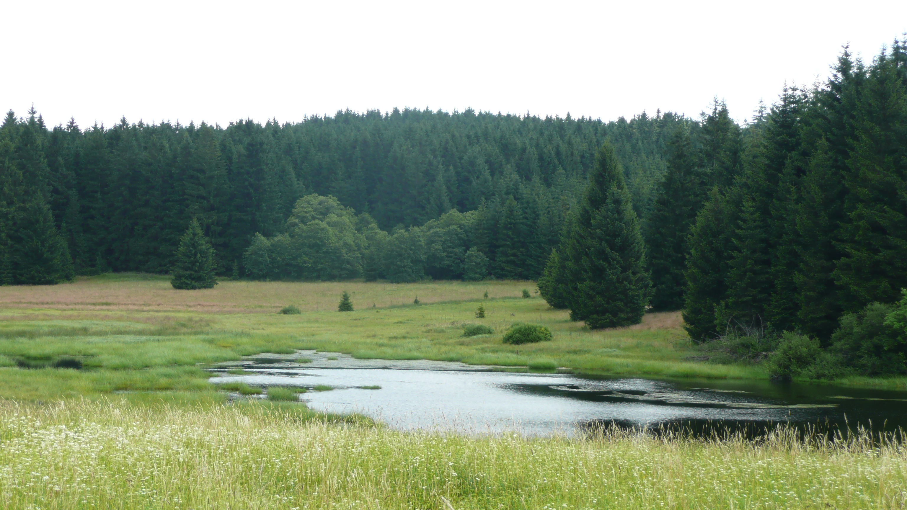 Small lake in Český les.